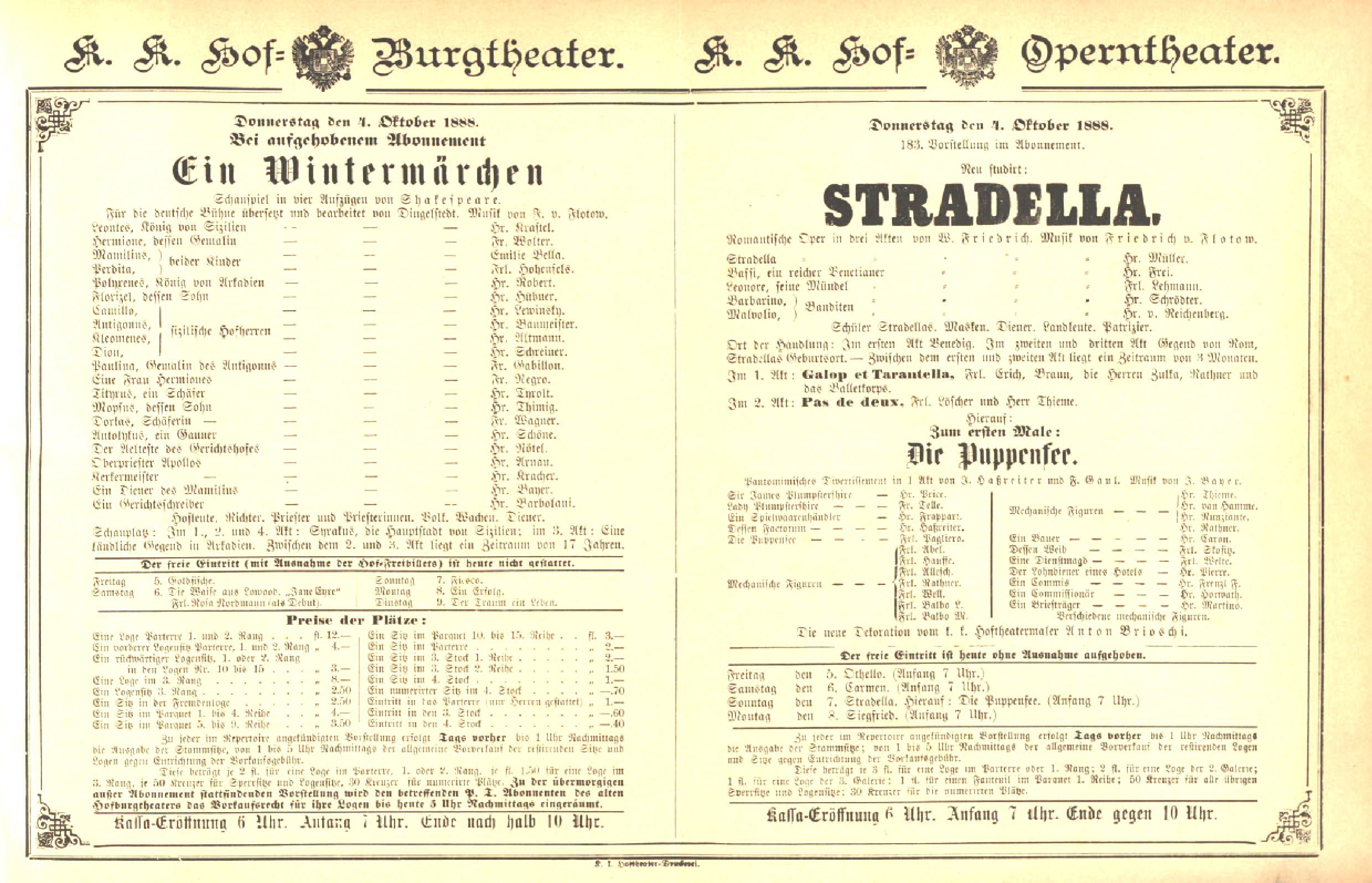 Play bill for the Court Theatres on October 25, 1888; announcing the premiere of the ballet Die Puppenfee (The Fairy Doll) in the K. K. Hof-Operntheater.